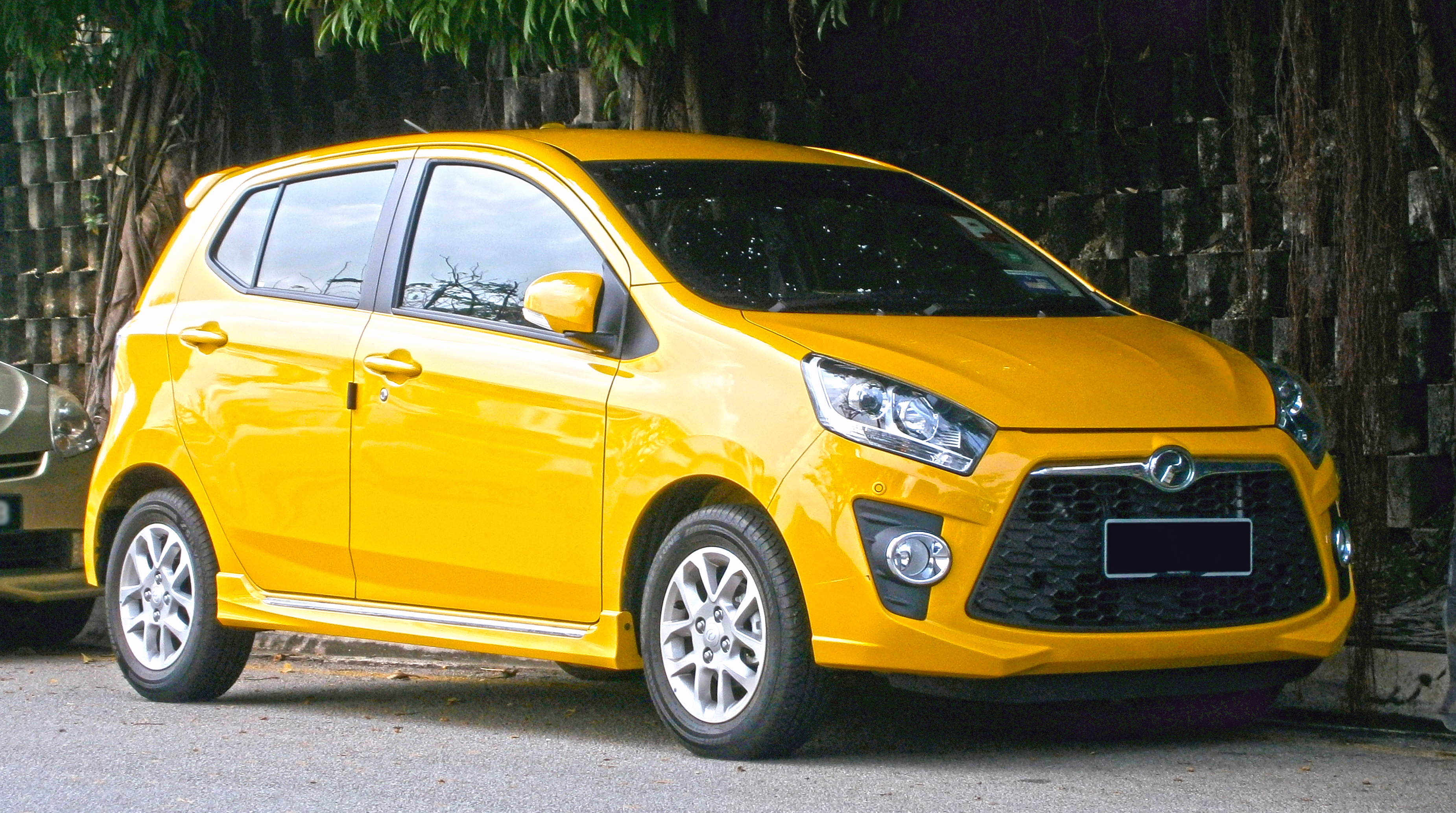 2014 Perodua Axia SE in Cyberjaya, Malaysia.Colour : Sunflower Yellow